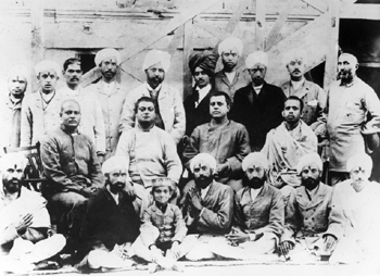 This photo is assumed to be taken during Swamiji’s first visit to Kashmir in 1897 In the photo– sitting on chairs (from left to right): Swami Sadananda, Swami Vivekananda, Swami Niranjanananda, Swami Dhirananda.